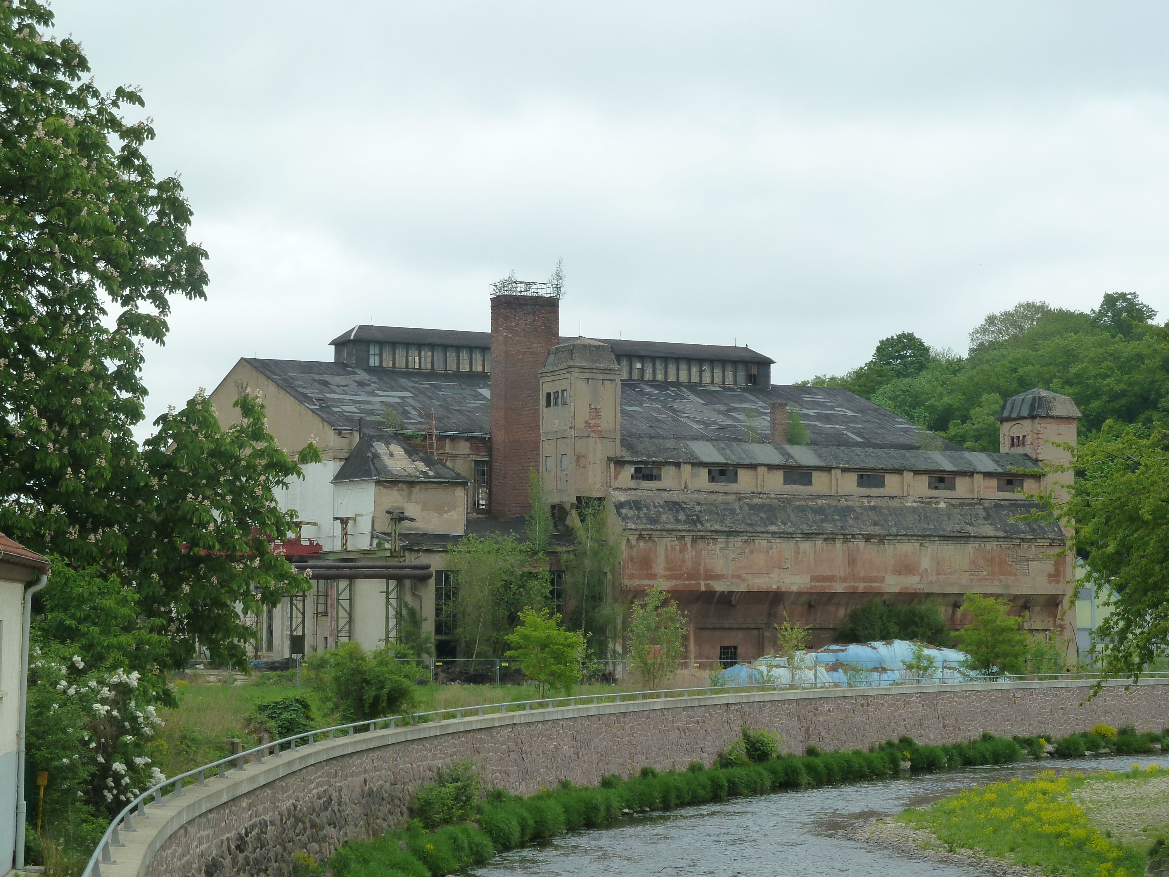 Power station 'Im Plauenschen Grund' 1896—1929, pulled down 2012/13